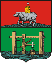 Alapaevsk (Sverdlovsk oblast), coat of arms (1783)